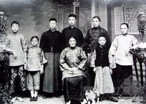 Photo of CT Loo family